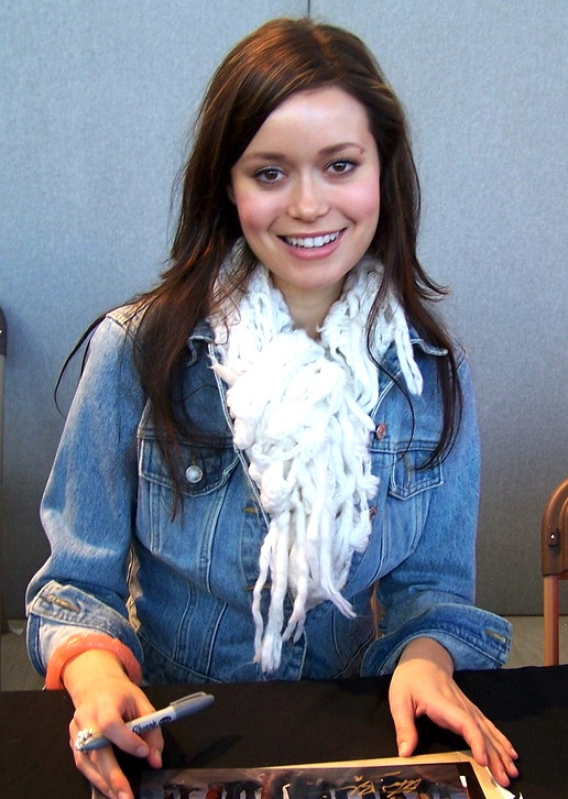 Actress Summer Glau at Collectormania, 1st October 2005